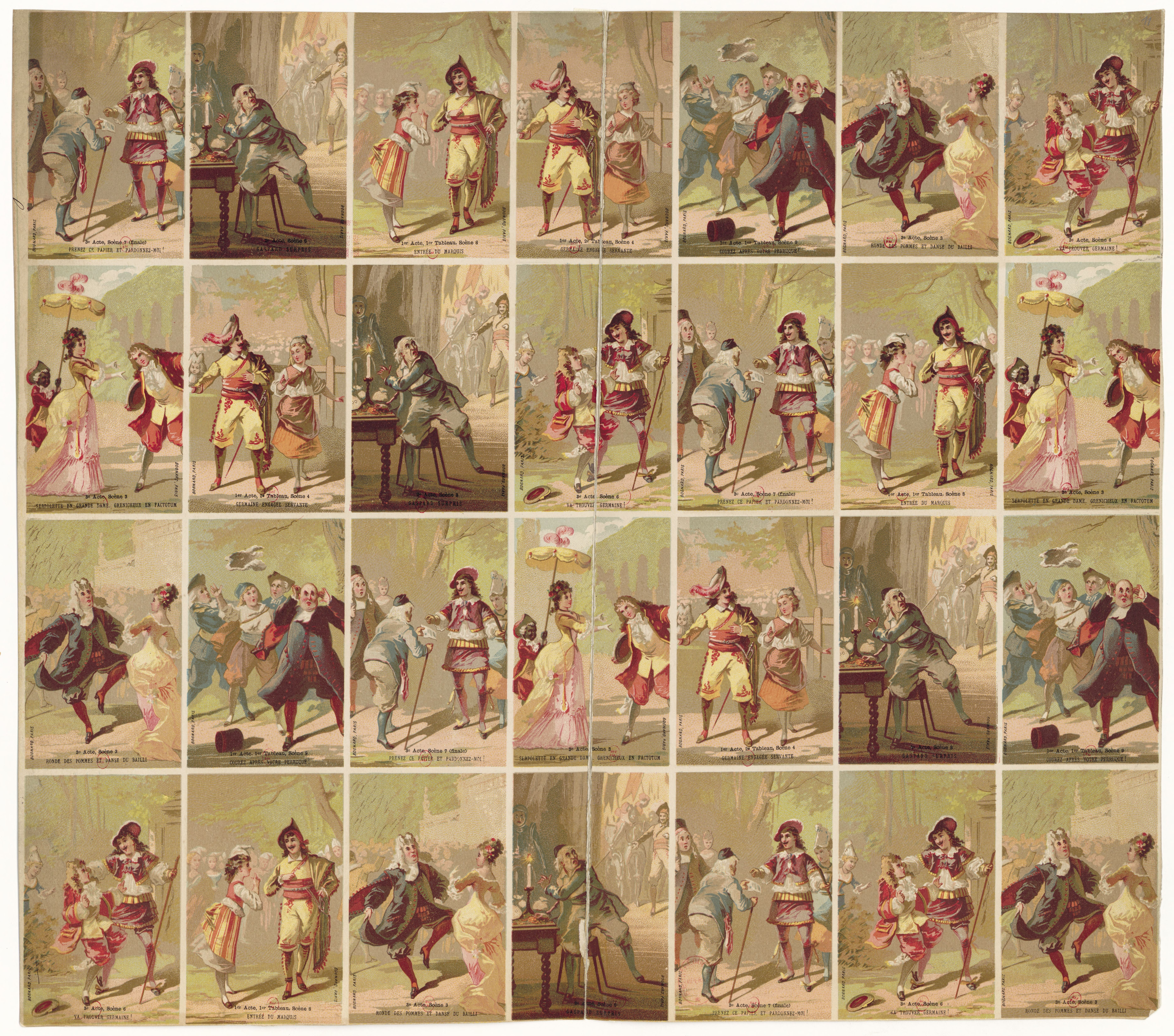 Scenes of the operetta Les Cloches de Corneville, photomechanical print.